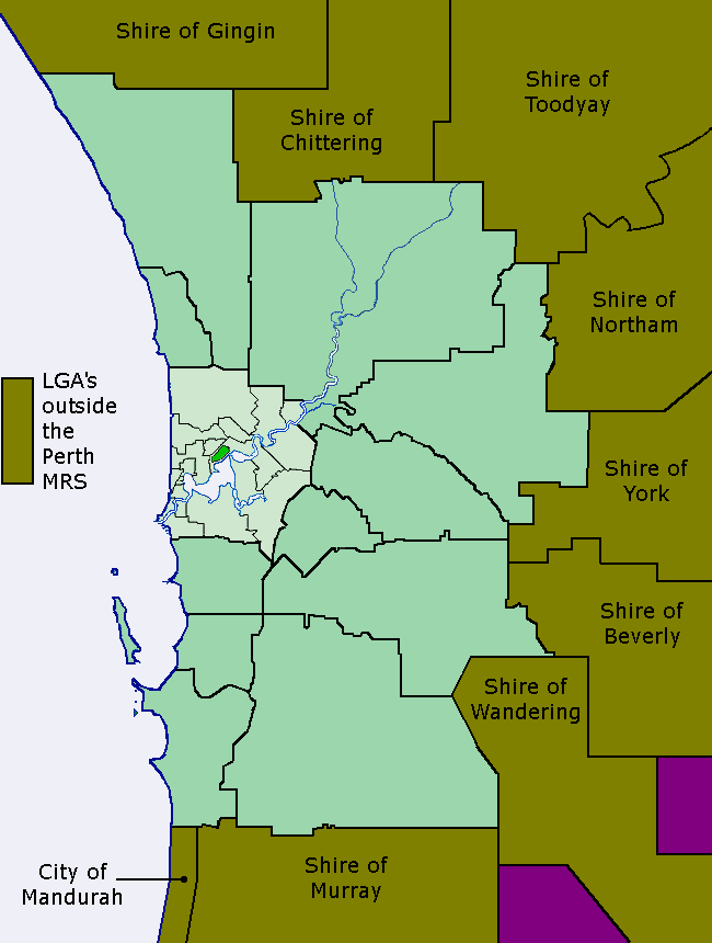 Perth Metropolitan Region Scheme Boundary.